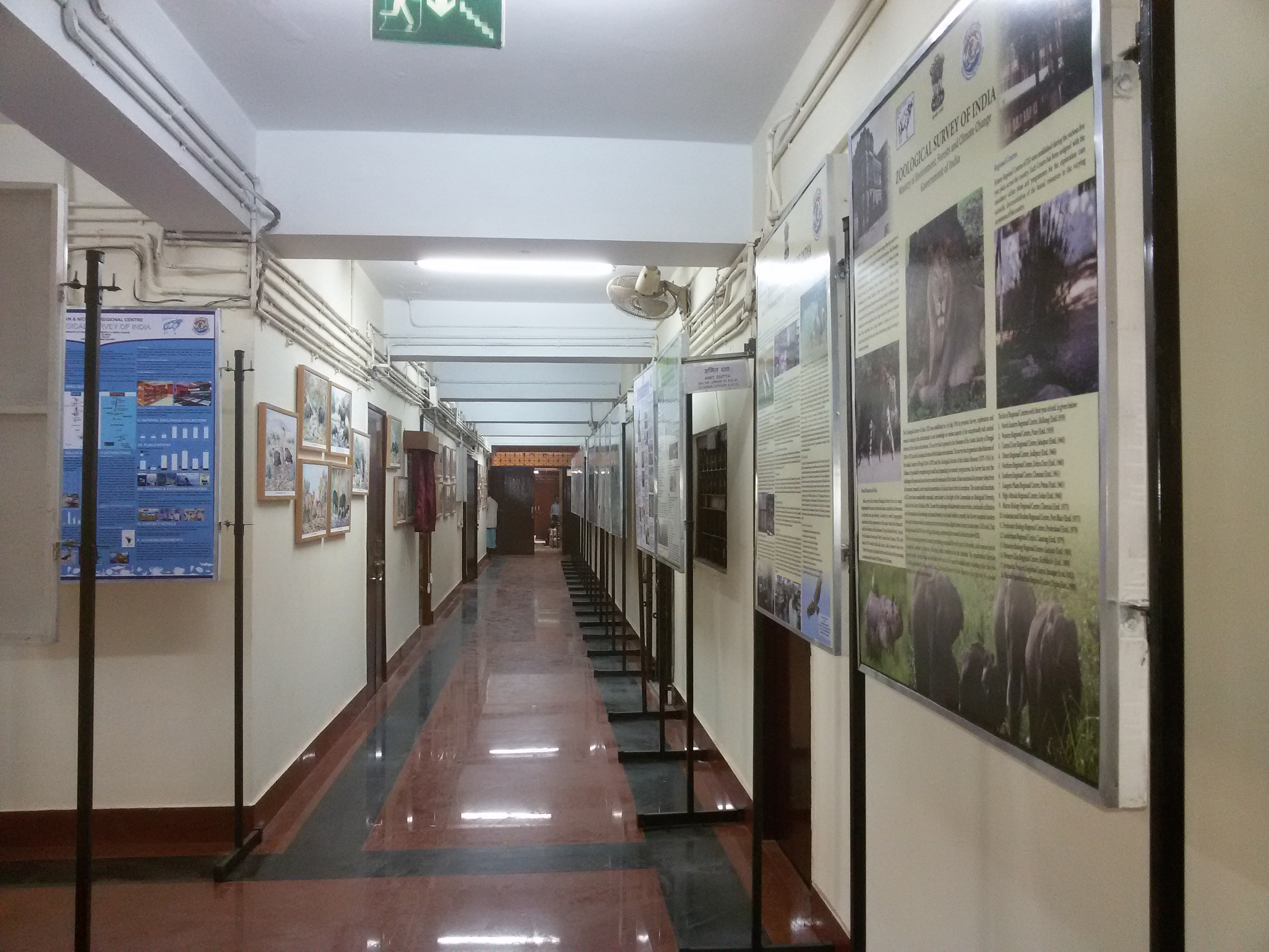 ZSI, Kolkata